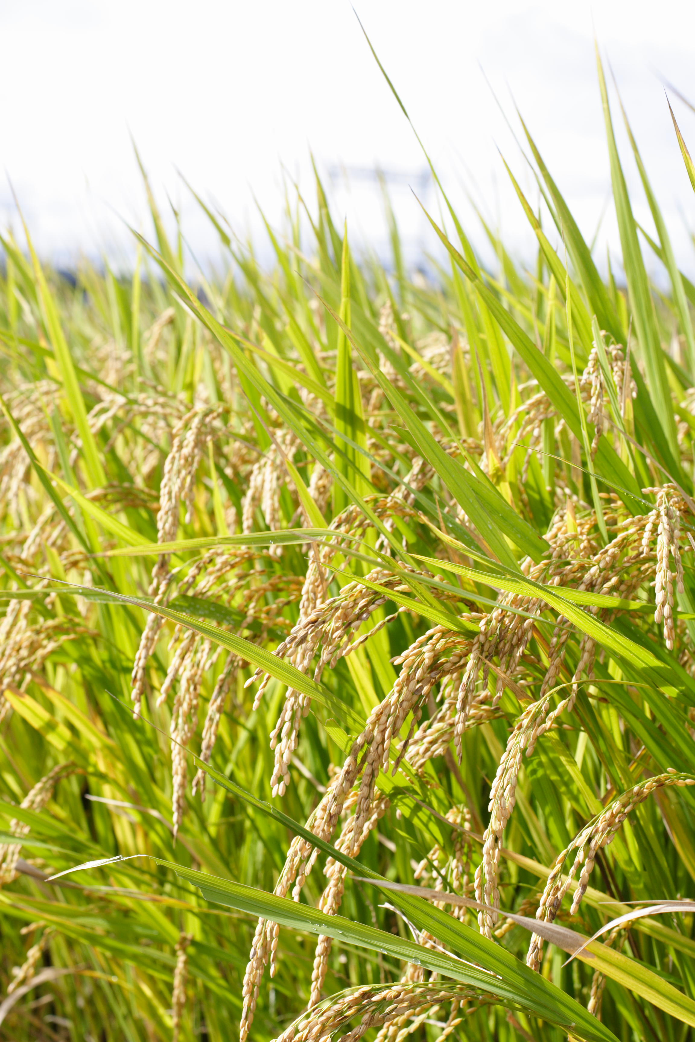 rice (Kyoto, Japan)